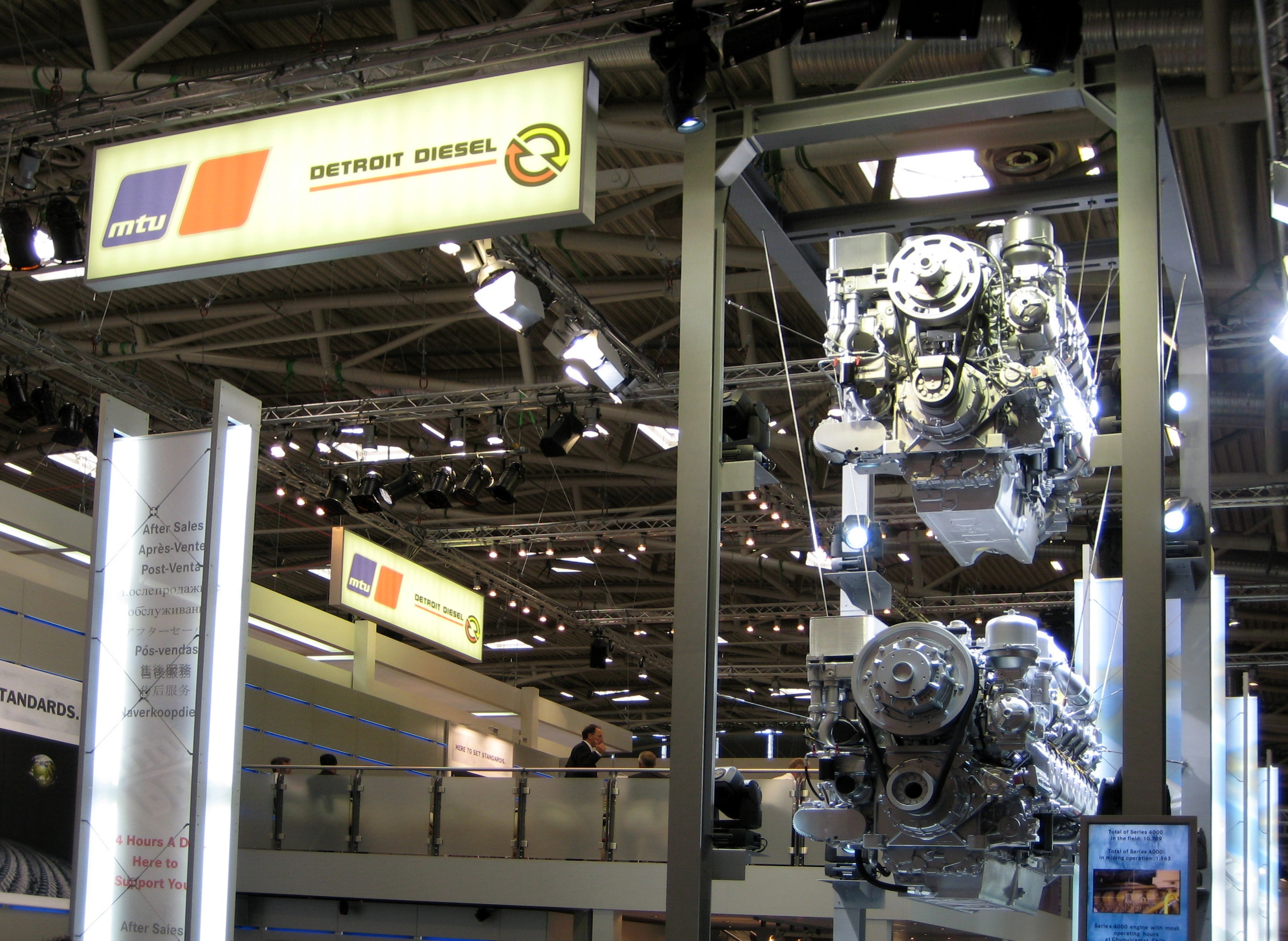 Detroit Diesel at the bauma 2007